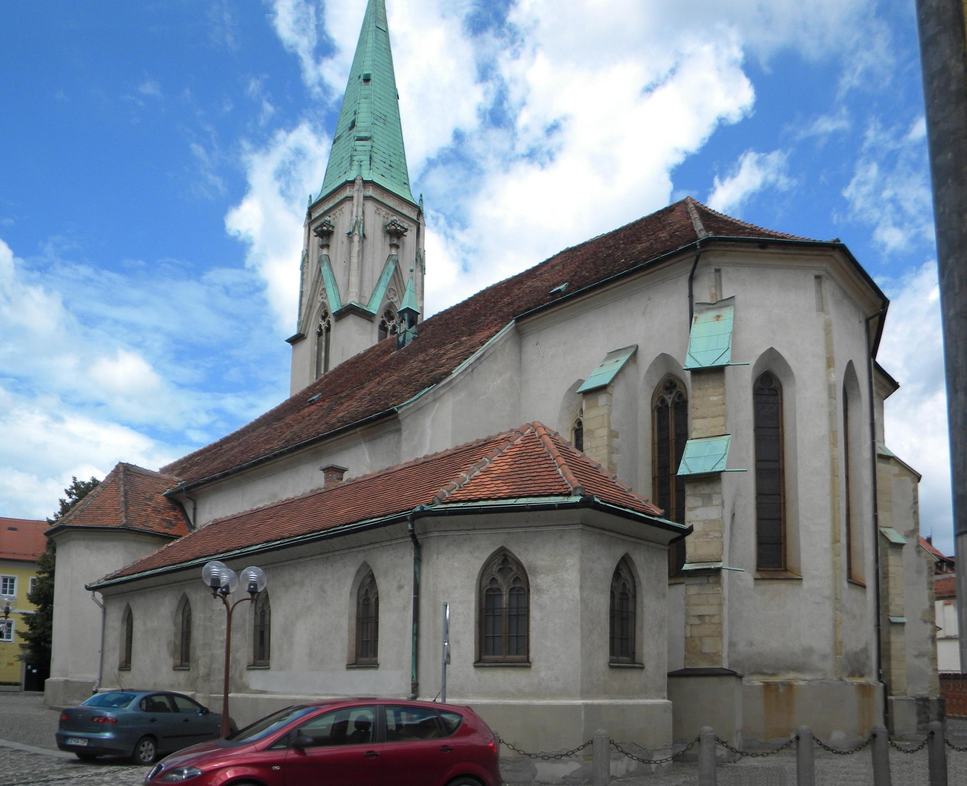 Gothic cathedral in Celje (Slovenia)